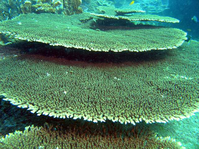 Staghorn coral (Acropora sp.), Pulau Redang, West Malaysia